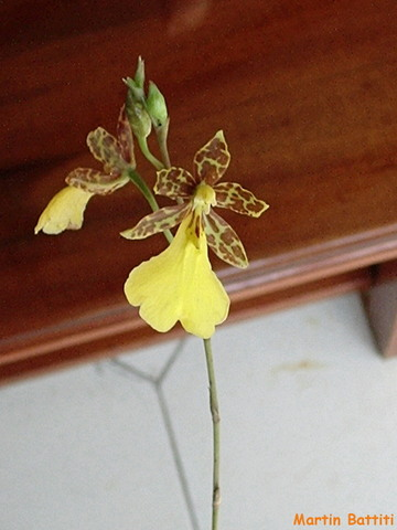 A work released per the GNU Free Documentation License by: Martín Javier Battiti de Tegucigalpa, Honduras